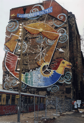 A famous squat Kunsthaus Tacheles located at Oranienburger Straße, Berlin, Germany. "Where is Captain Nemo?" is in the graffiti. Photo taken by Teca in 1998.